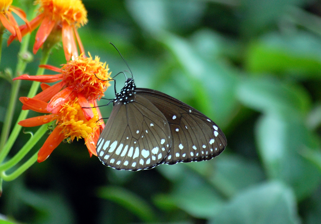 Common crow